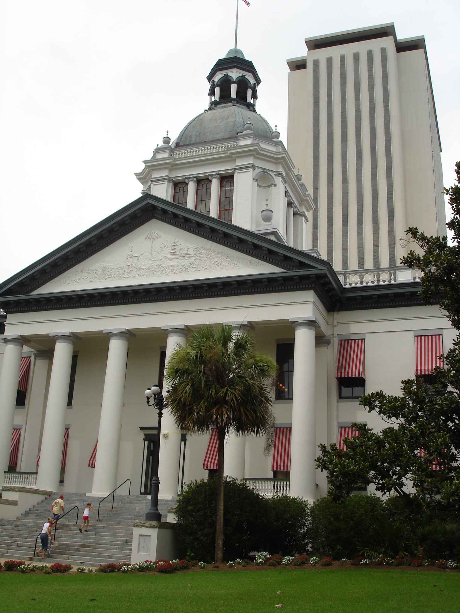 Tallahassee, Florida. Old State Capitol with new State Capitol behind.